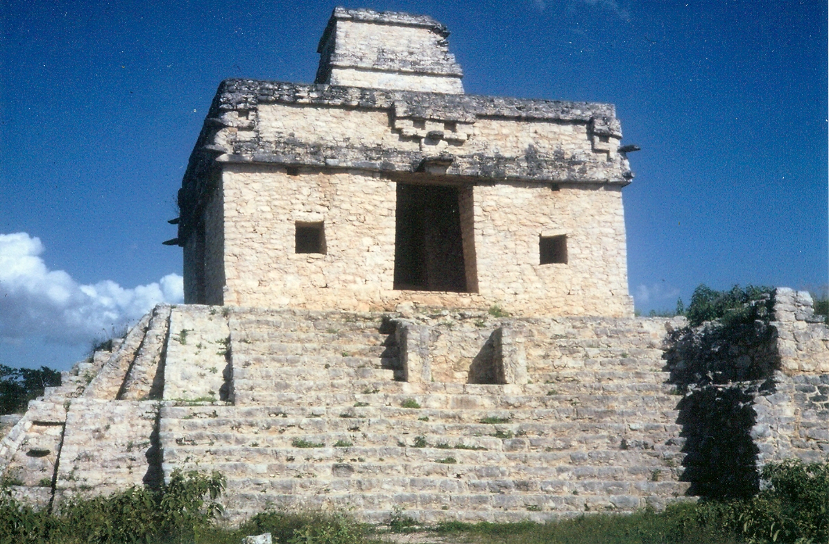 Temple of the Seven Dolls, Dzibilchaltun, Mexico